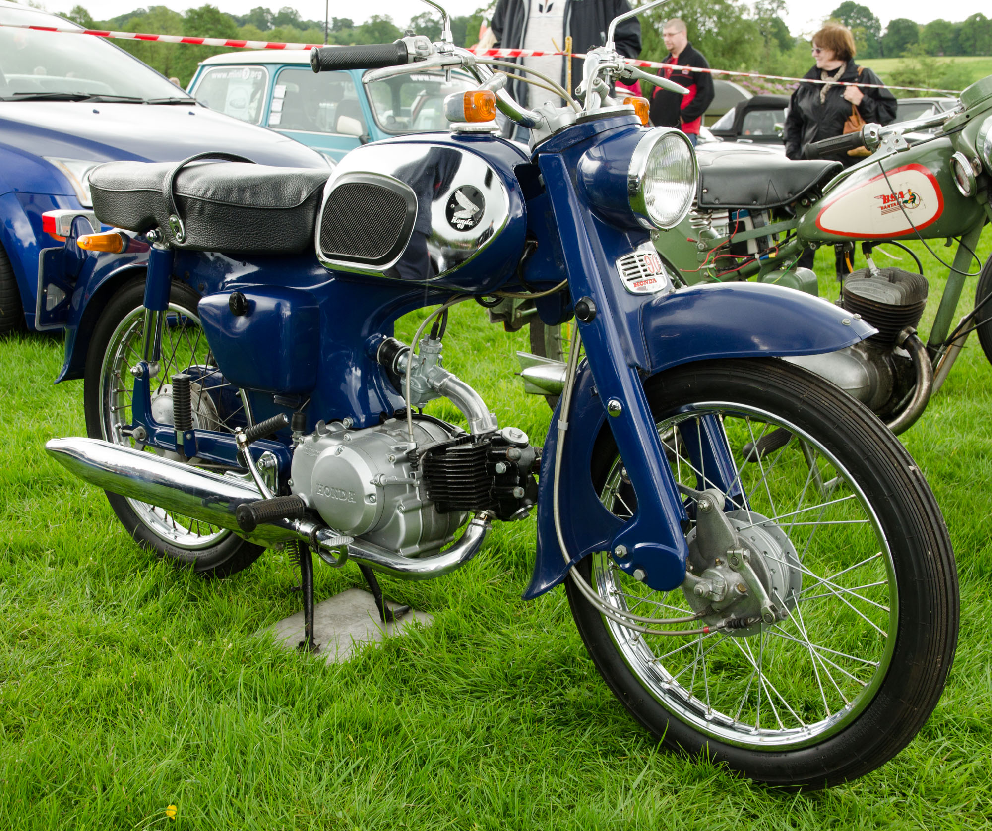 Capesthorne Hall Classic Car Show 25/05/2014